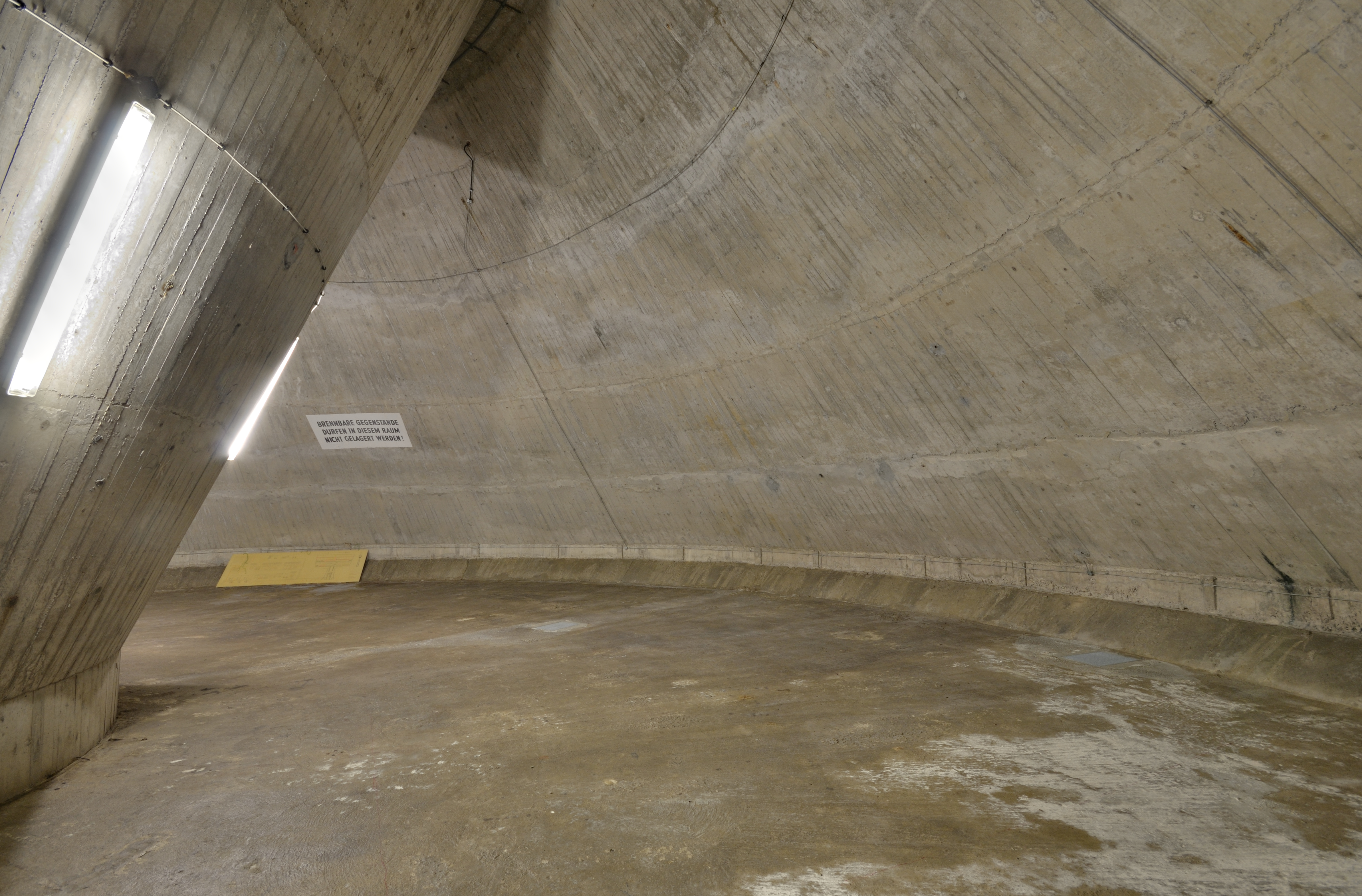 Television Tower Stuttgarter: grounding